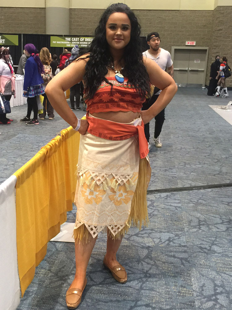 Cosplayer at Toronto Comicon 2017.